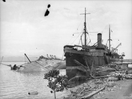 The steamship Anshun lying on her side in Milne Bay, Papua New Guinea, where she was sunk by Japanese warships.